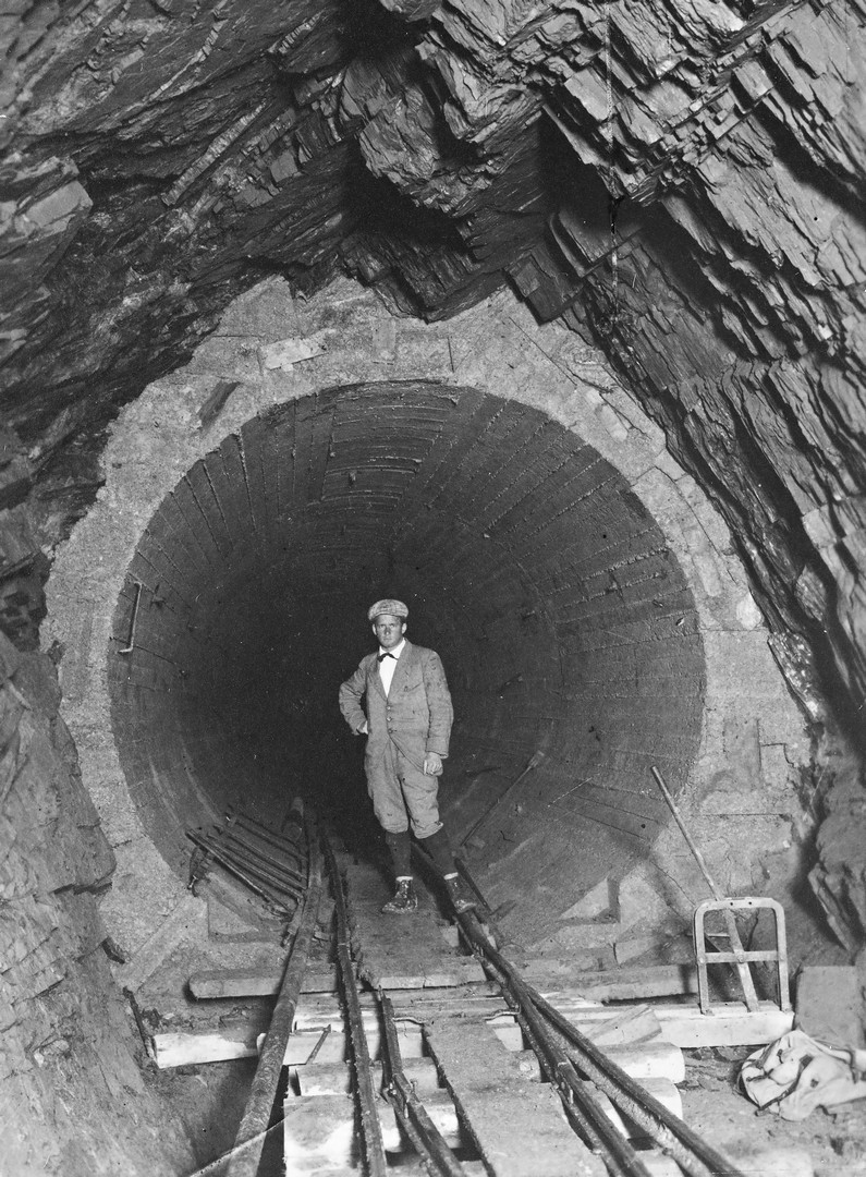 small version of SBB Historic - F 103 00003 01 015 - Zulaufstollen Kraftwerk Amsteg, Auskleidung der Kreisprofilstrecke cropped bw.tif set to black & white